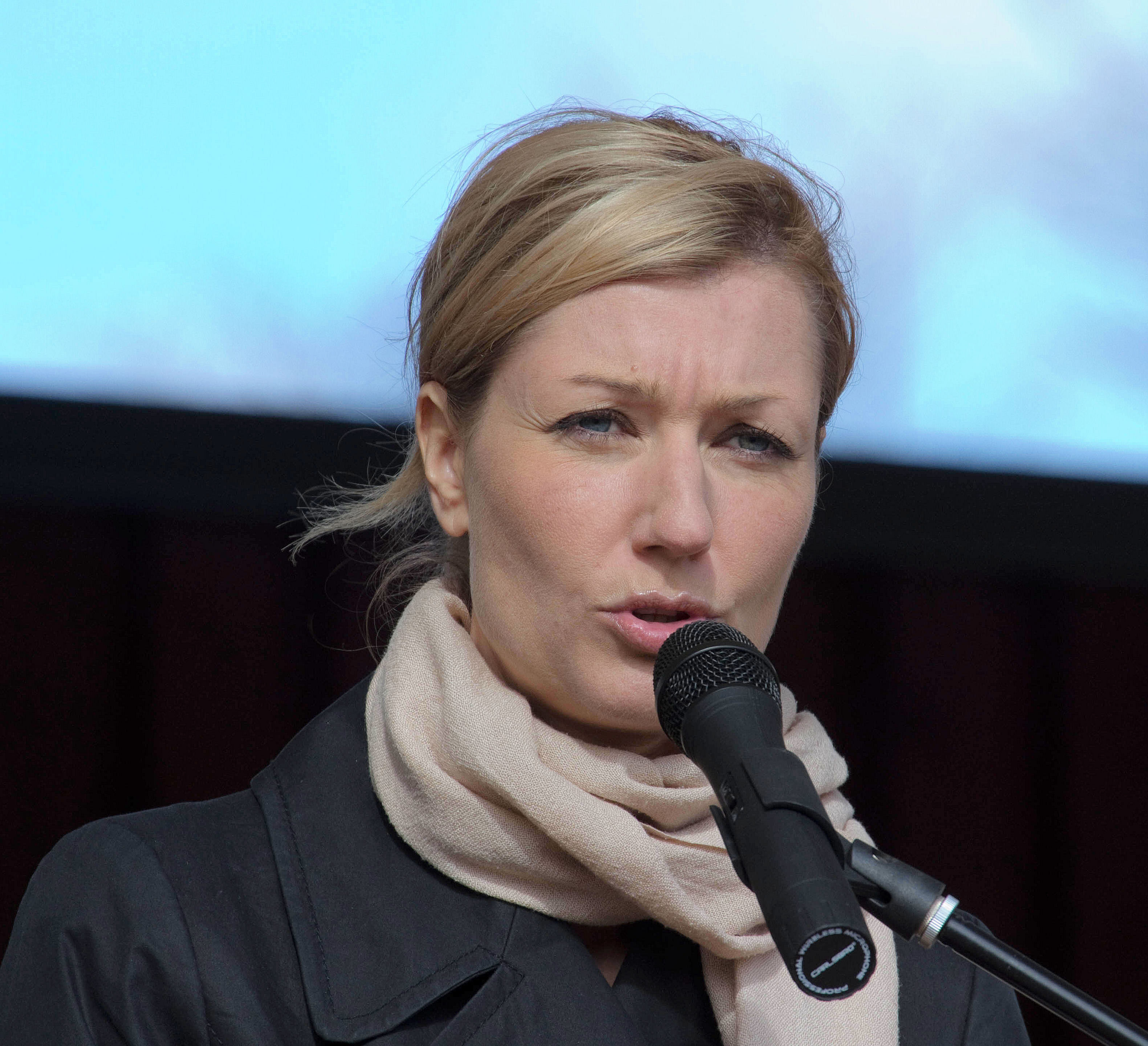 Finnish politician Maria Guzenina-Richardson